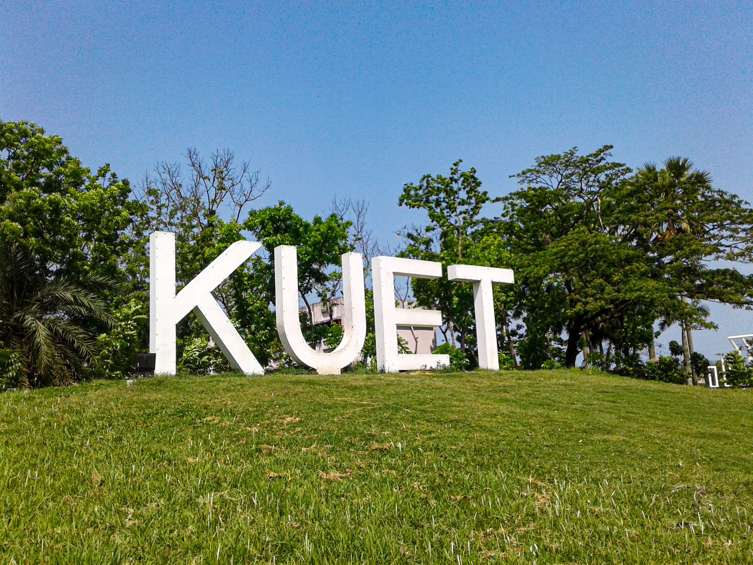 KUET sign mark behind the main gate of the university. It is locally known as “KUET Hollywood”.